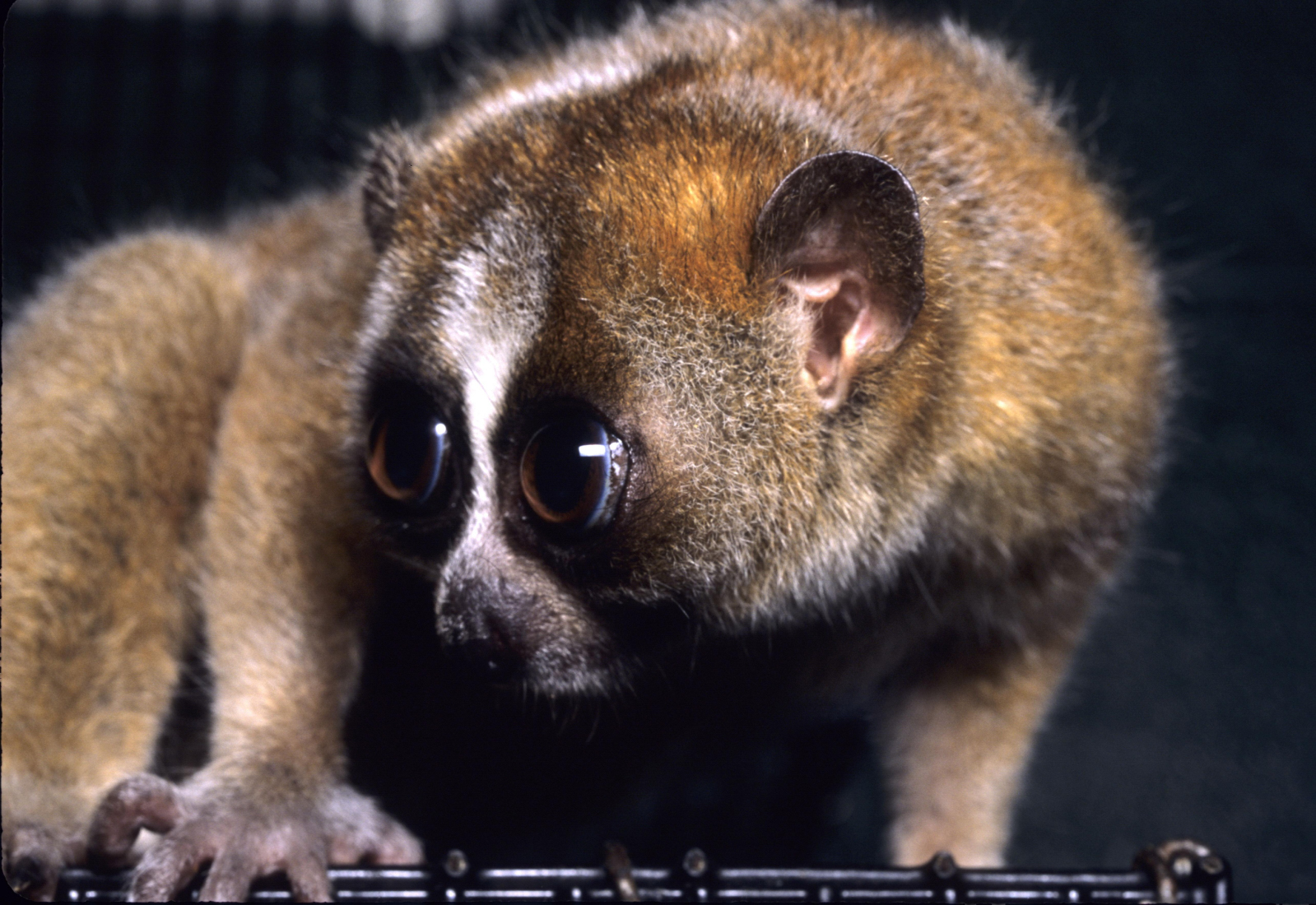 A close up side view of a Pygmy Slow Loris (Nycticebus pygmaeus) at the Duke Lemur Center in Durham, North Carolina.